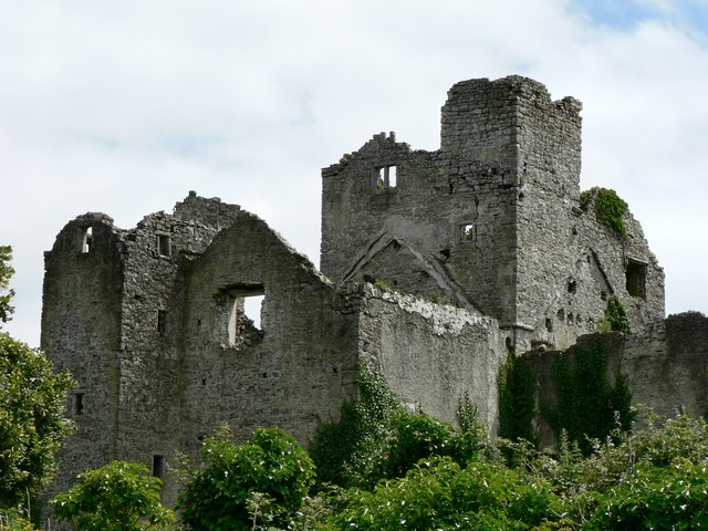 The Tower, Boverton Manor House, Boverton.